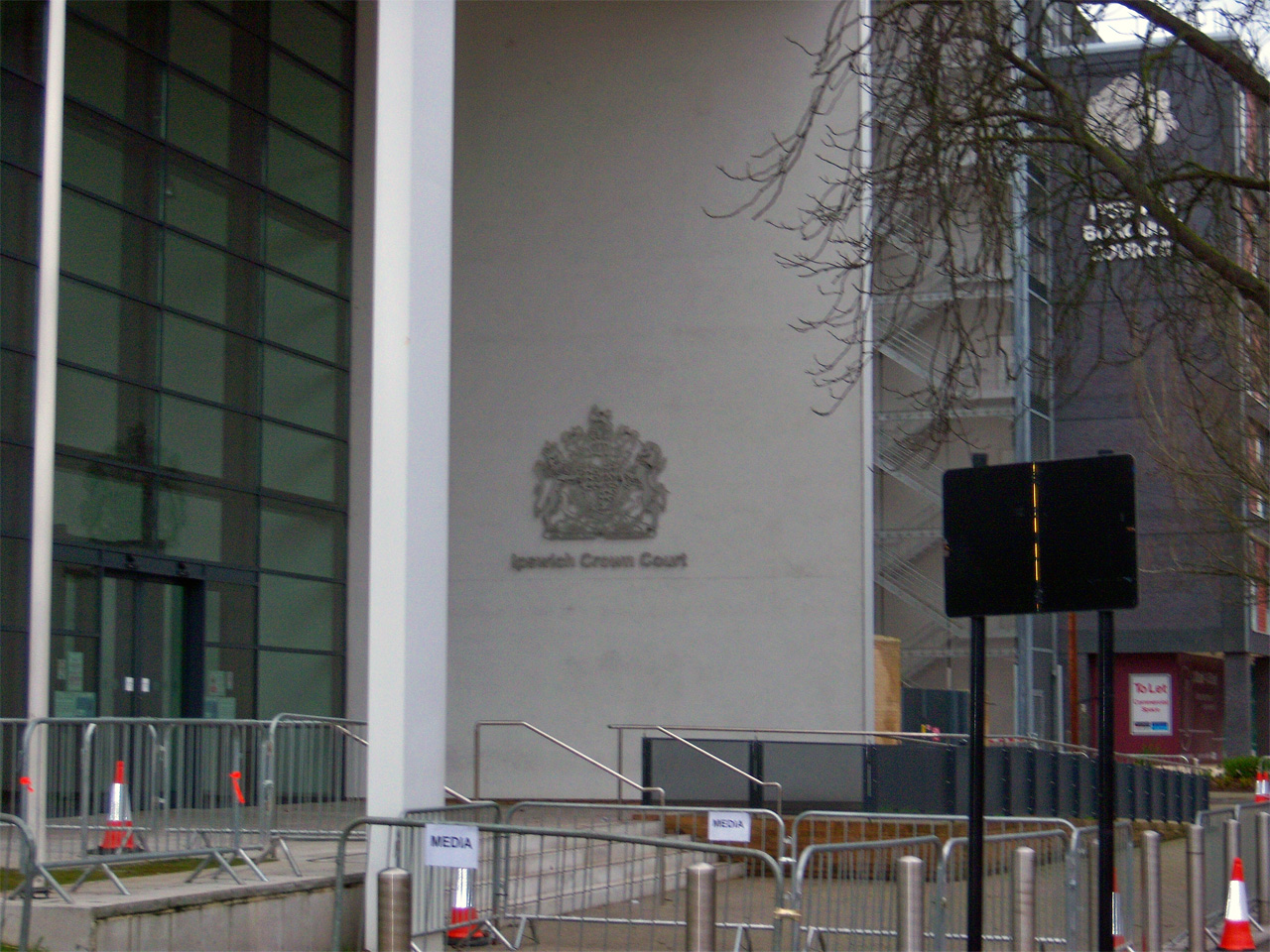 View of Ipswich Crown Court showing the 'media pen'